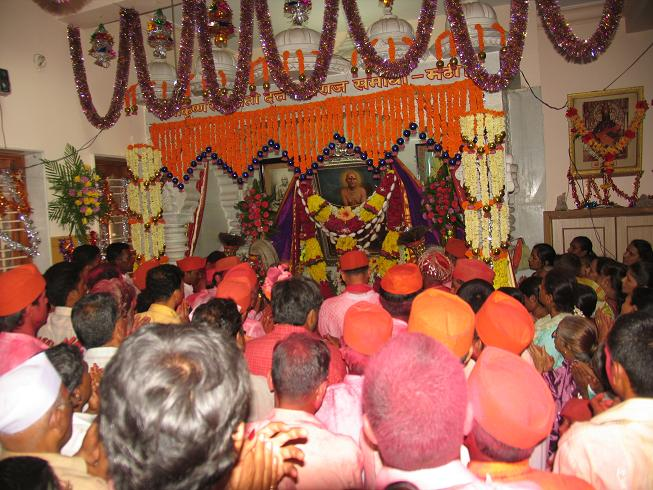 Photo taken at Samadhi place